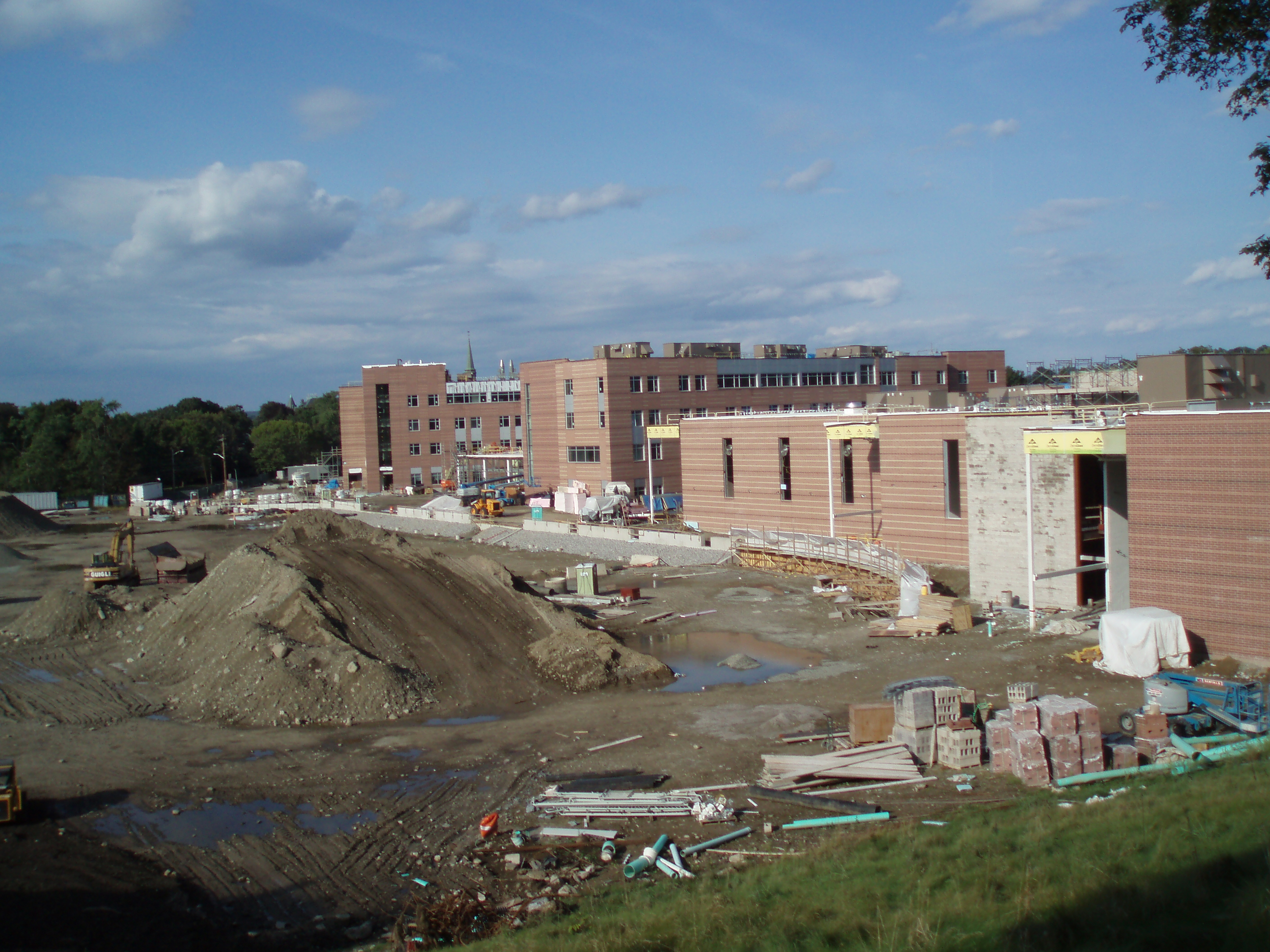 The construction of the 'new' Newton North High School, in September of 2009.